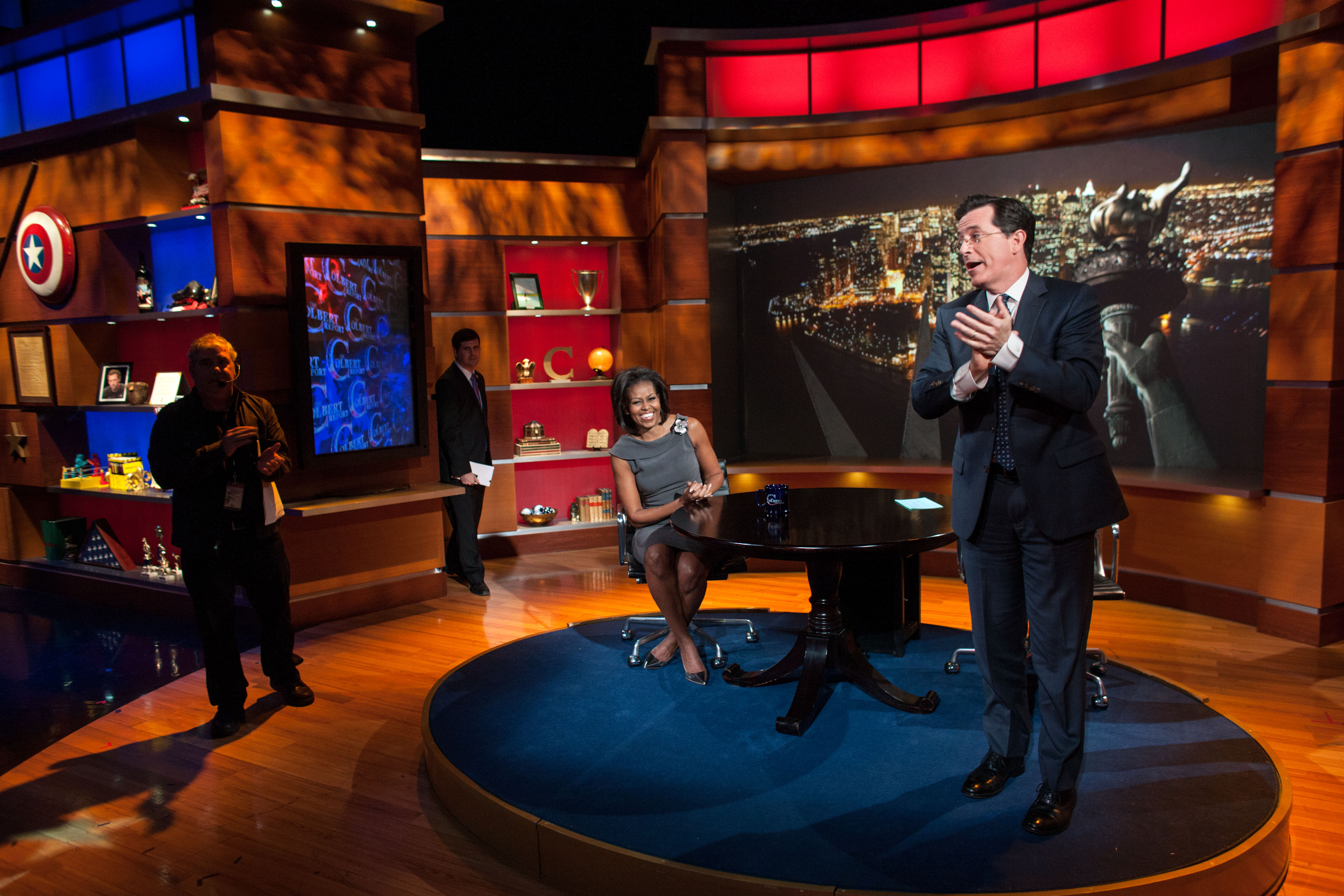 First Lady Michelle Obama participates in an interview with Stephen Colbert during a taping of “The Colbert Report,” at the Colbert Report Studio in New York, N.Y., April 11, 2012. (Official White House Photo by Lawrence Jackson)